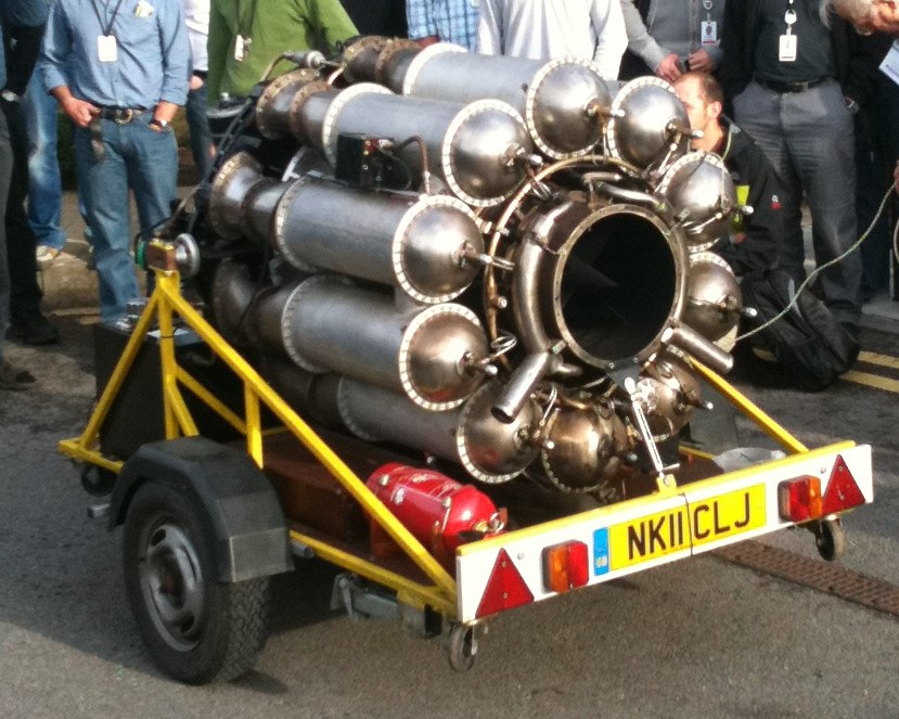 Demonstration running of Rolls-Royce Welland (the world's oldest running jet engine) by Terry Jones.